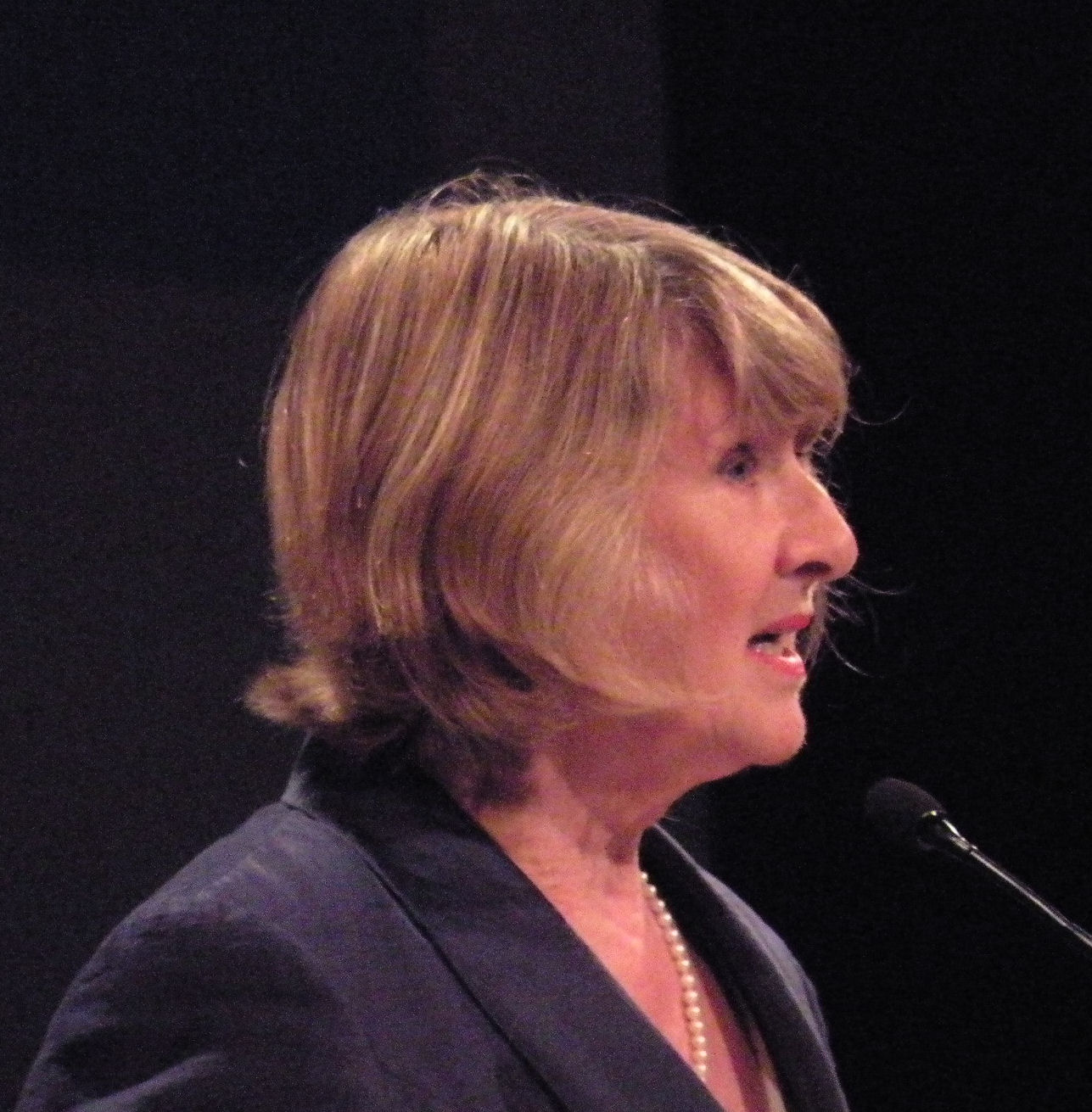 Joan Walmsley, Baroness Walmsley, addressing a Liberal Democrat conference in the Bournemouth International Centre